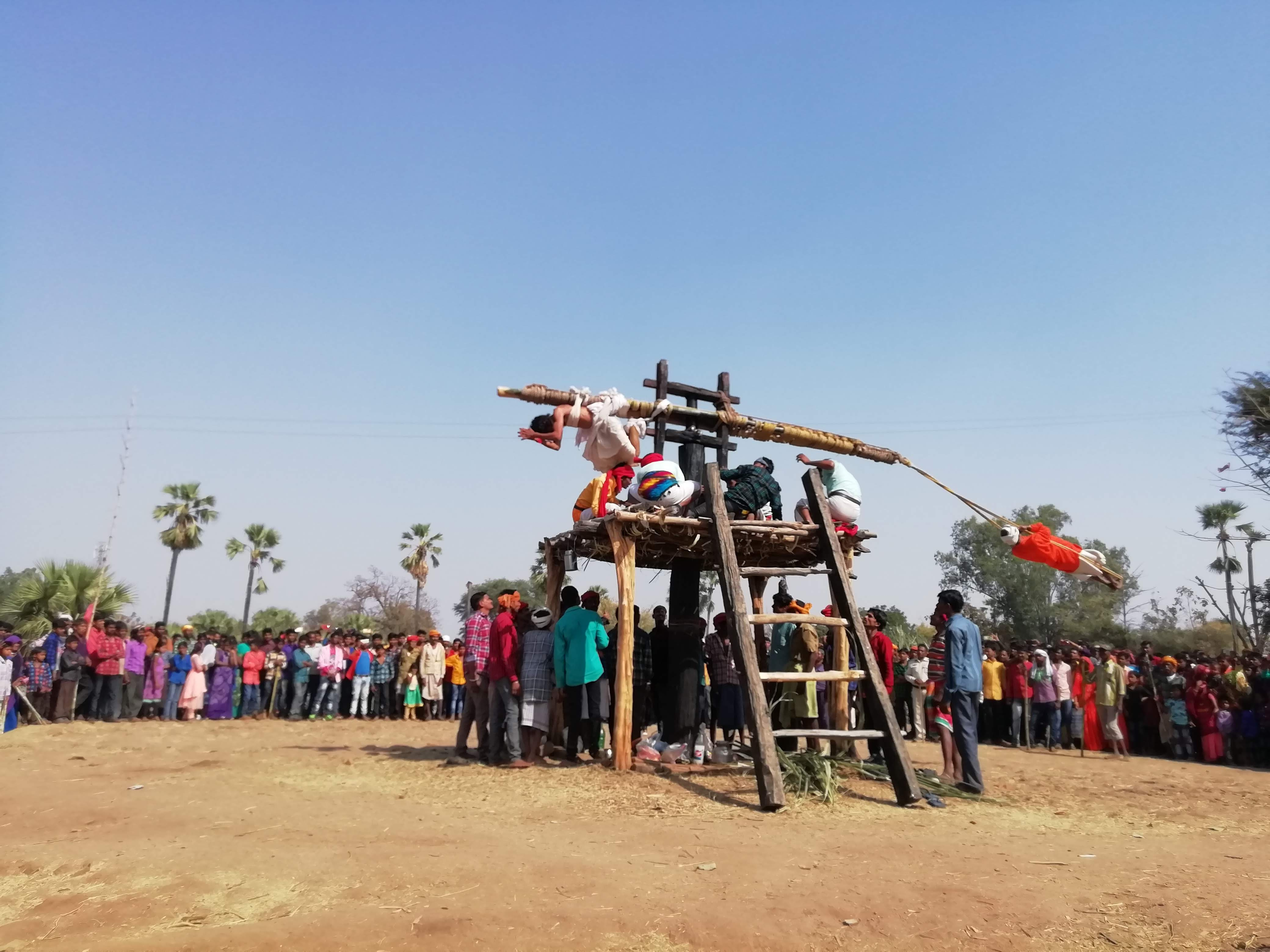 This is from katthiwara district alirajpur madhya pradesh ,india This photo has been taken in the country: India